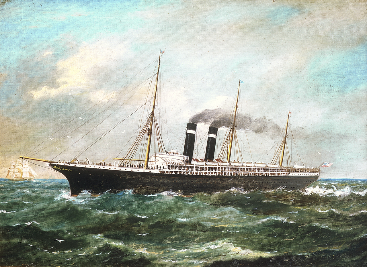 The steamship City of New York This is a portrait of the third ship with the name ‘City of New York’. She was built by J & G Thomson, Glasgow in 1888 for the Inman Line. The distinctive black funnels with a broad white band are clearly visible. She was a 10,499 gross ton vessel with a clipper stem and three masts, with accommodation for over 1,000 passengers. She left Liverpool on her maiden voyage for Queenstown and New York. By 1893 she was transferred to American Line renamed ‘New York’ and put under the US flag. She is shown flying the American flag so this painting may date to this period. In 1922 she left New York for the last time for the American Black Sea Line on a voyage to Naples and Constantinople where she was sold at auction by order of the US government, and was scrapped at Genoa in 1923. Throughout her life, her name changed four times from the ‘City of New York’ to ‘New York’ ‘Harvard’ and finally ‘Plattsburg’. The painting is signed ‘H. McKlown’ The steamship 'City of New York'